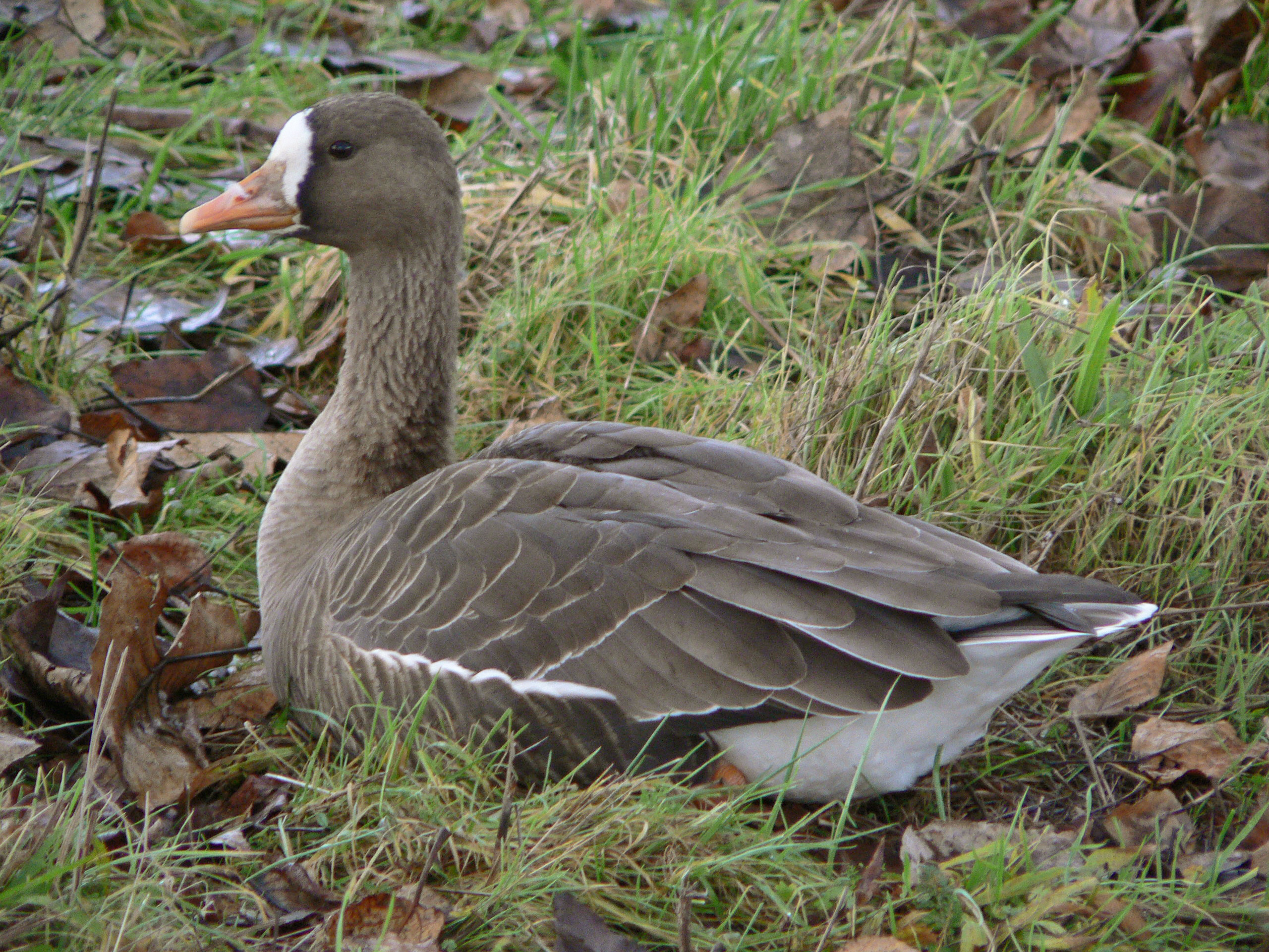 White-fronted Goose